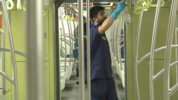 Cleaning of the 200 series cars of the Buenos Aires underground during the 2020 coronavirus outbreak in Argentina.